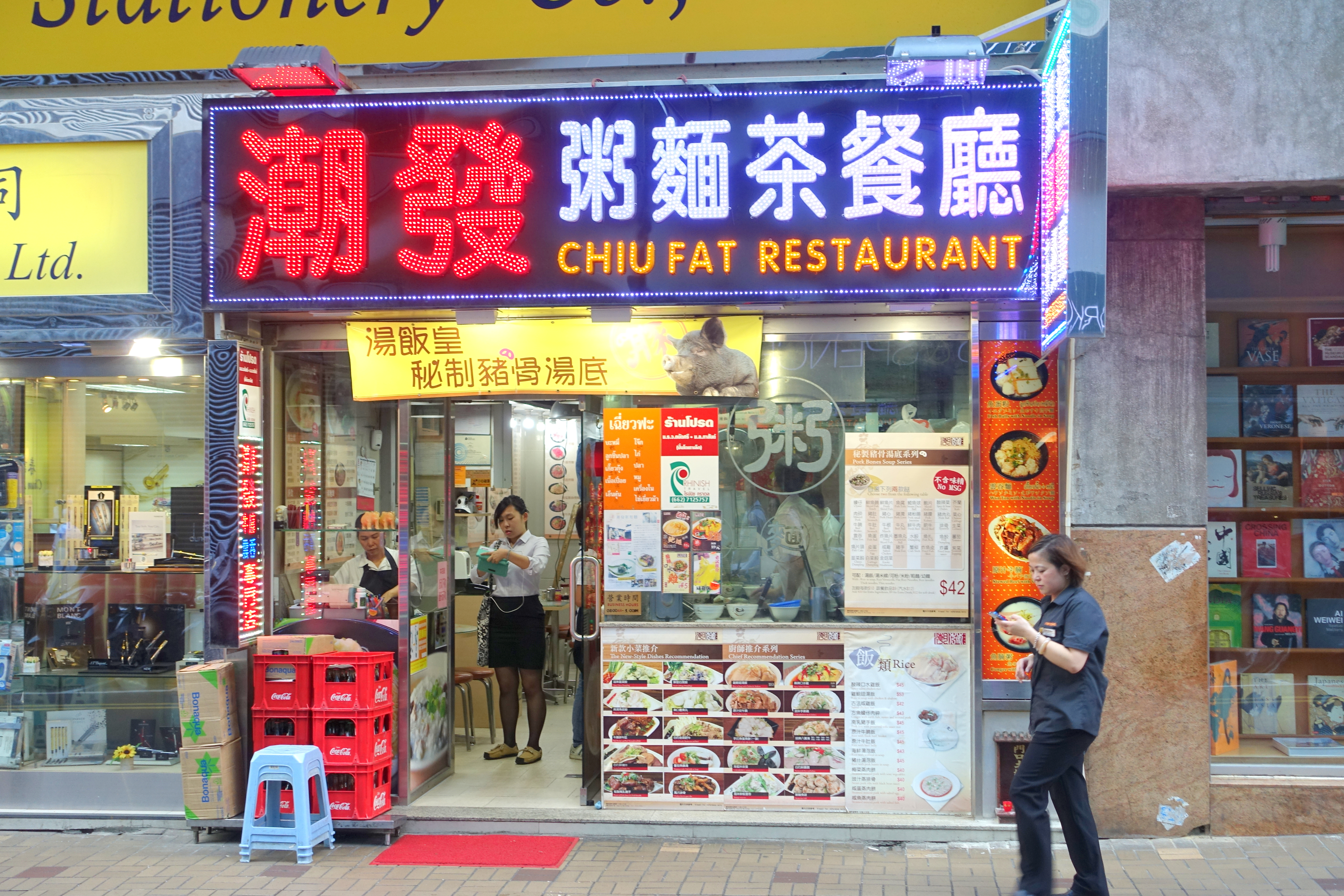 Chiu Fat Restaurant, Tsim Sha Tsui, Kowloon, Hong Kong.